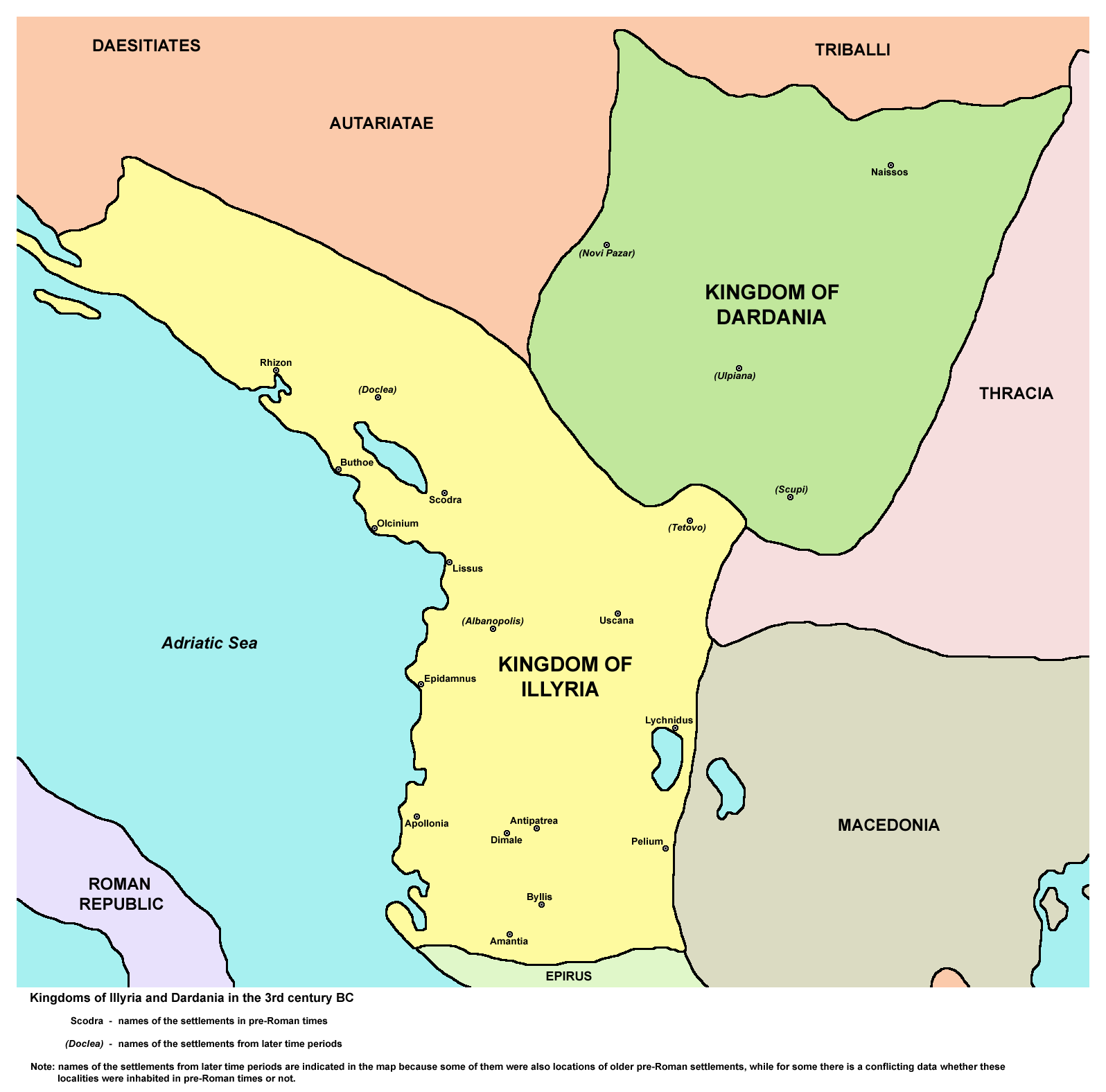 Kingdom of Illyria (under king Agron and queen Teuta, stretching "from Epirus to Neretva") and Kingdom of Dardania in the 3rd century BC. Note: borders of Illyria and Dardania are made according to the map from the article written by Fanula Papazoglu, professor of the University of Belgrade and academician of the Serbian Academy of Sciences and Arts.